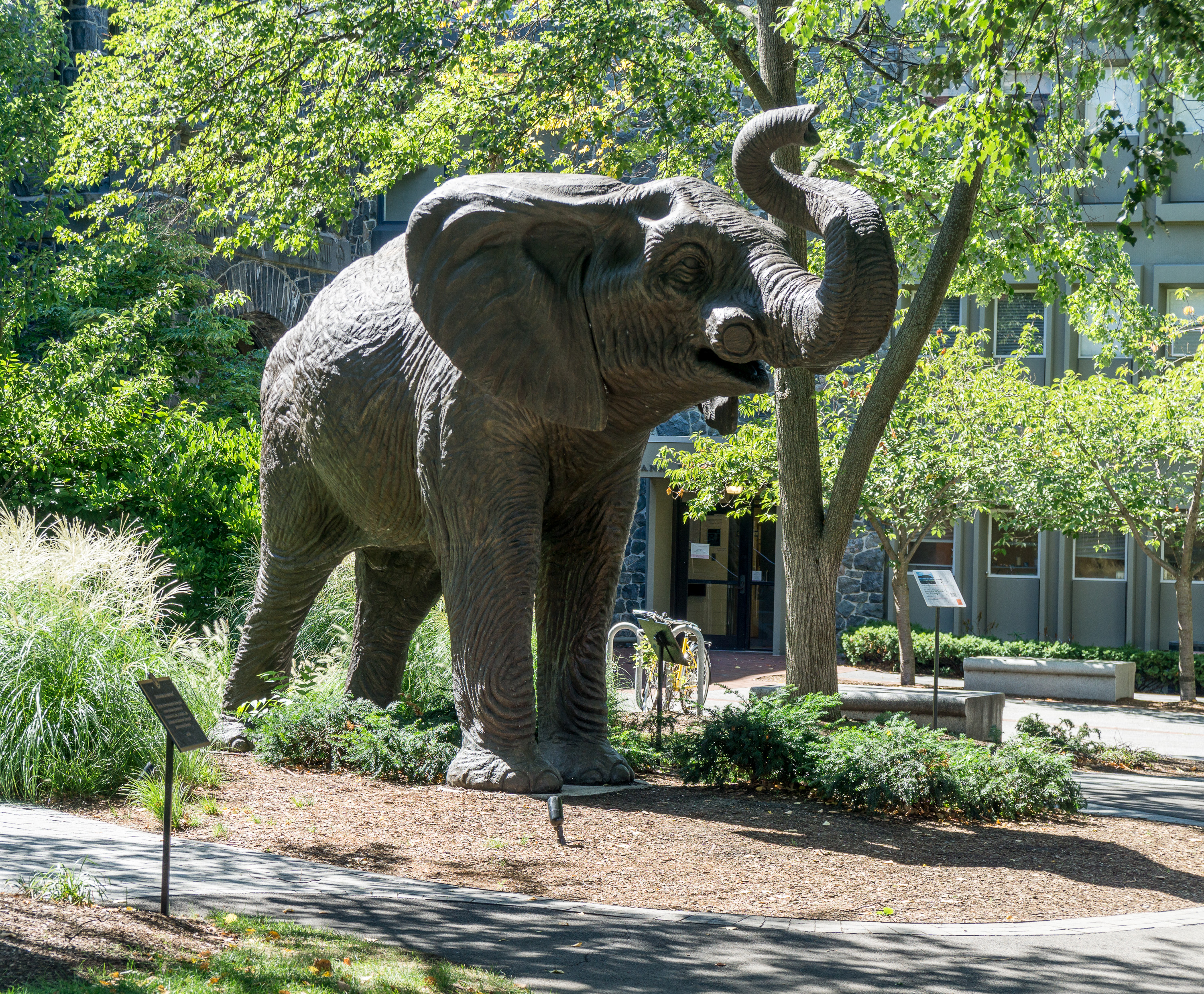 Jumbo statue at Tufts University, Medford, Massachusetts.